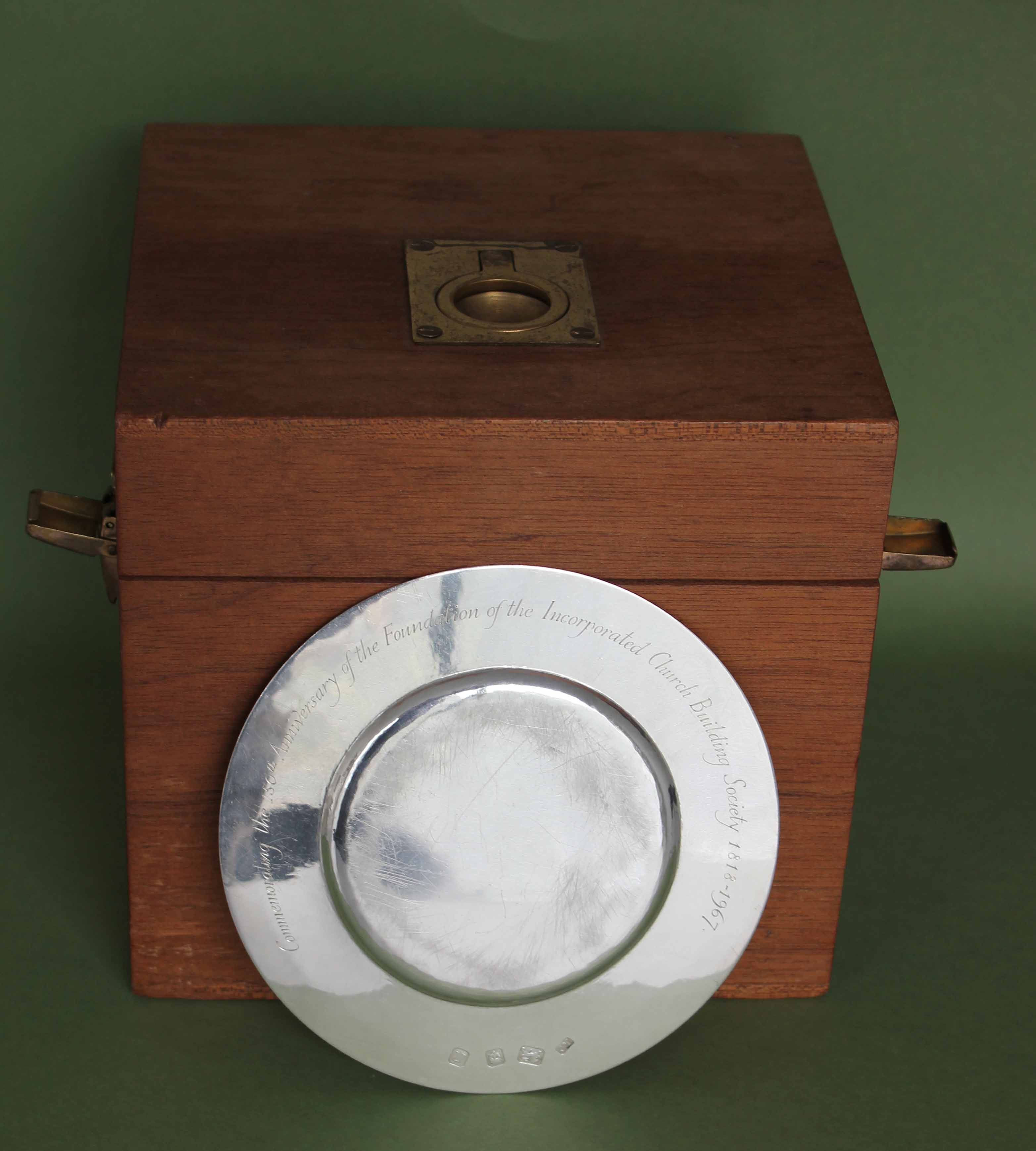 The Presidents’ Award dates from 1999 and is presented on behalf of the Presidents of the Ecclesiastical Architects and Surveyors Association and the National Churches Trust. The Chalice and Paten, originally commissioned by the Incorporated Church Building Society, were made after the 2nd World War to be loaned to a new or seriously war damaged church. It is lent to the winning parish to be held by them for the next year. The work of the Incorporated Church Building Society is now administered by the National Churches Trust.